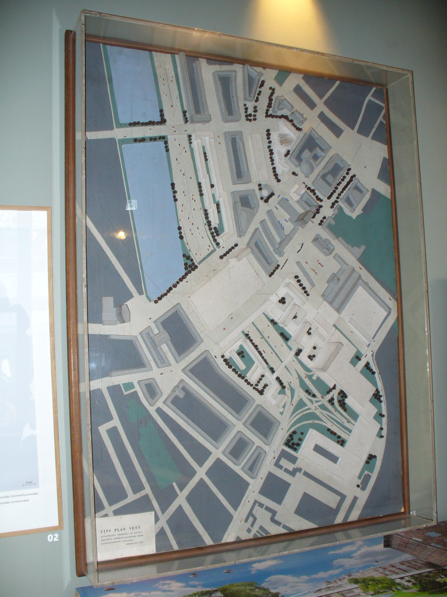 Model of City Plan Vest in the Museum of Copenhagen. In the 1960s there were several plans about highways along the Copenhagen Lakes and through Vesterbro but they were never realized.